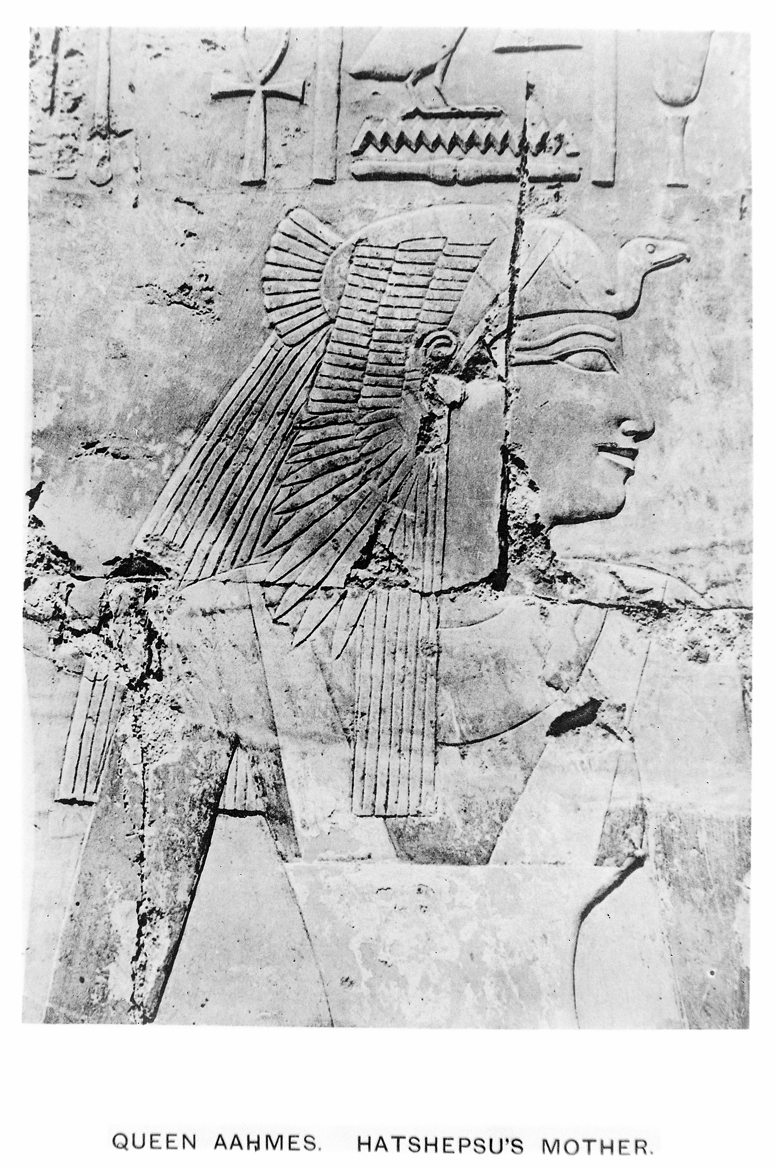 Temple of Deir-El-Bahari, wall carving depicting Queen Aahmes, Hatshepsu's mother Wellcome Images Keywords: egyptology; Art; archaeology: deir-el-bahari; Queen Aahmes